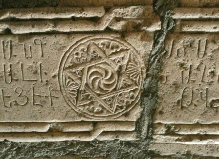 The marble tombstone of Grand Prince Hasan Jalal Vahtangian, part